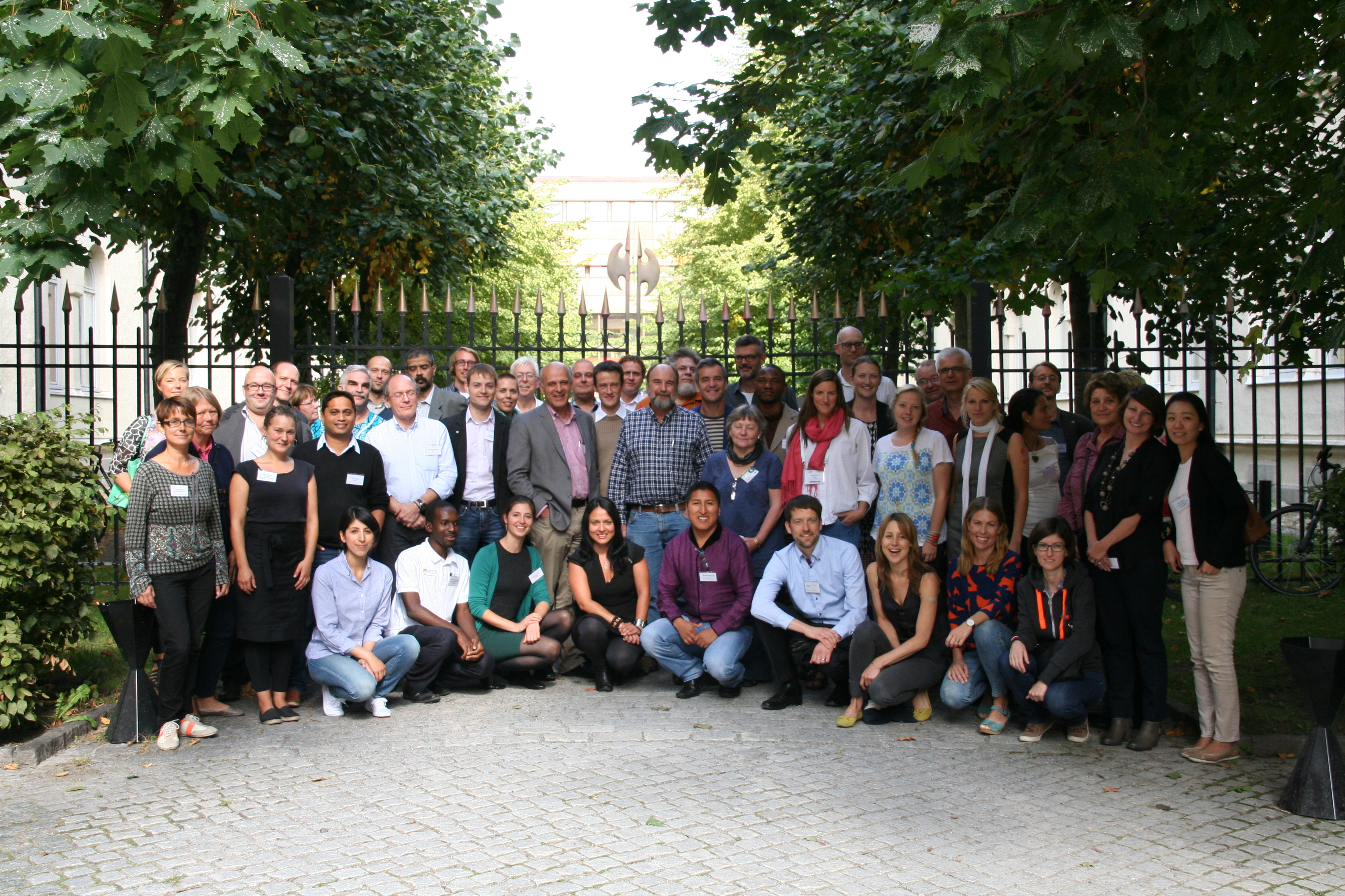 Group photo at 18th SuSanA meeting in Stockholm, Sweden